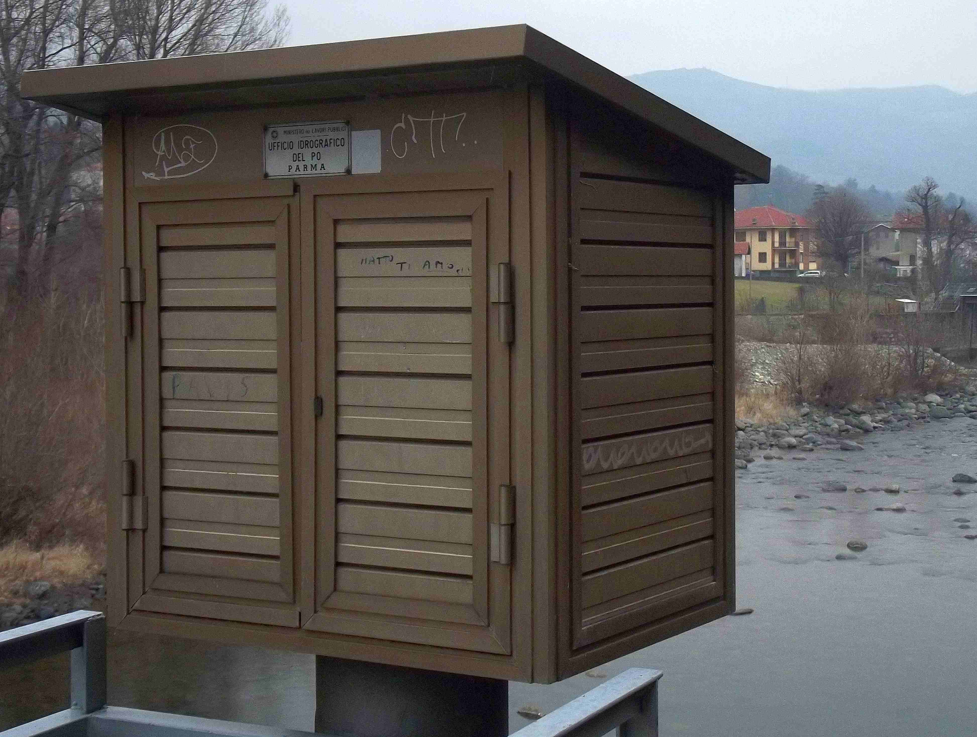 stream gauging on Stura di Lanzo (Lanzo Torinese, TO, Italy)